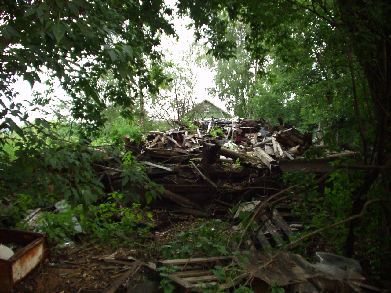 Terekhovo 2004 debris